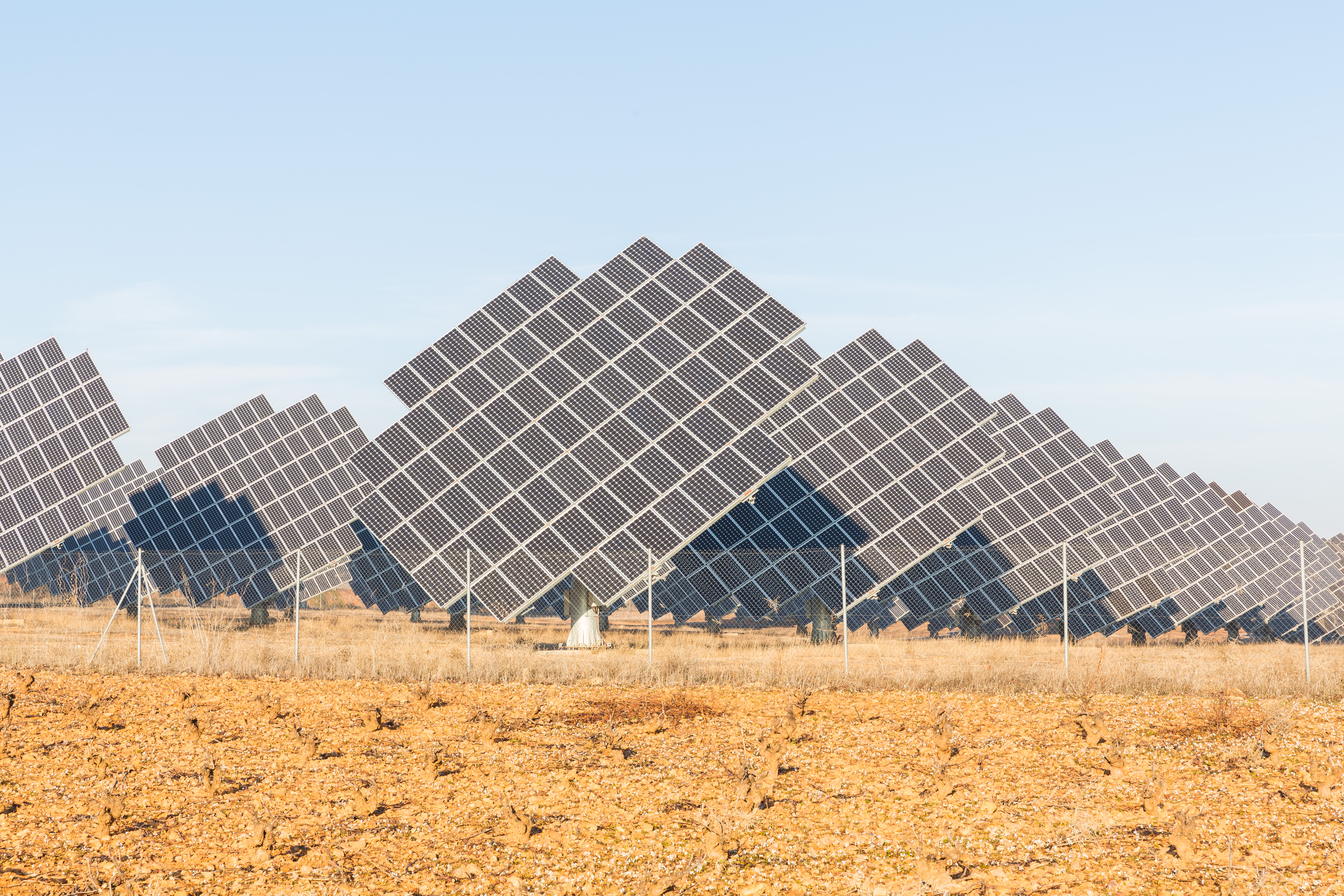 Photovoltaic power station in Cariñena, Zaragoza, Spain